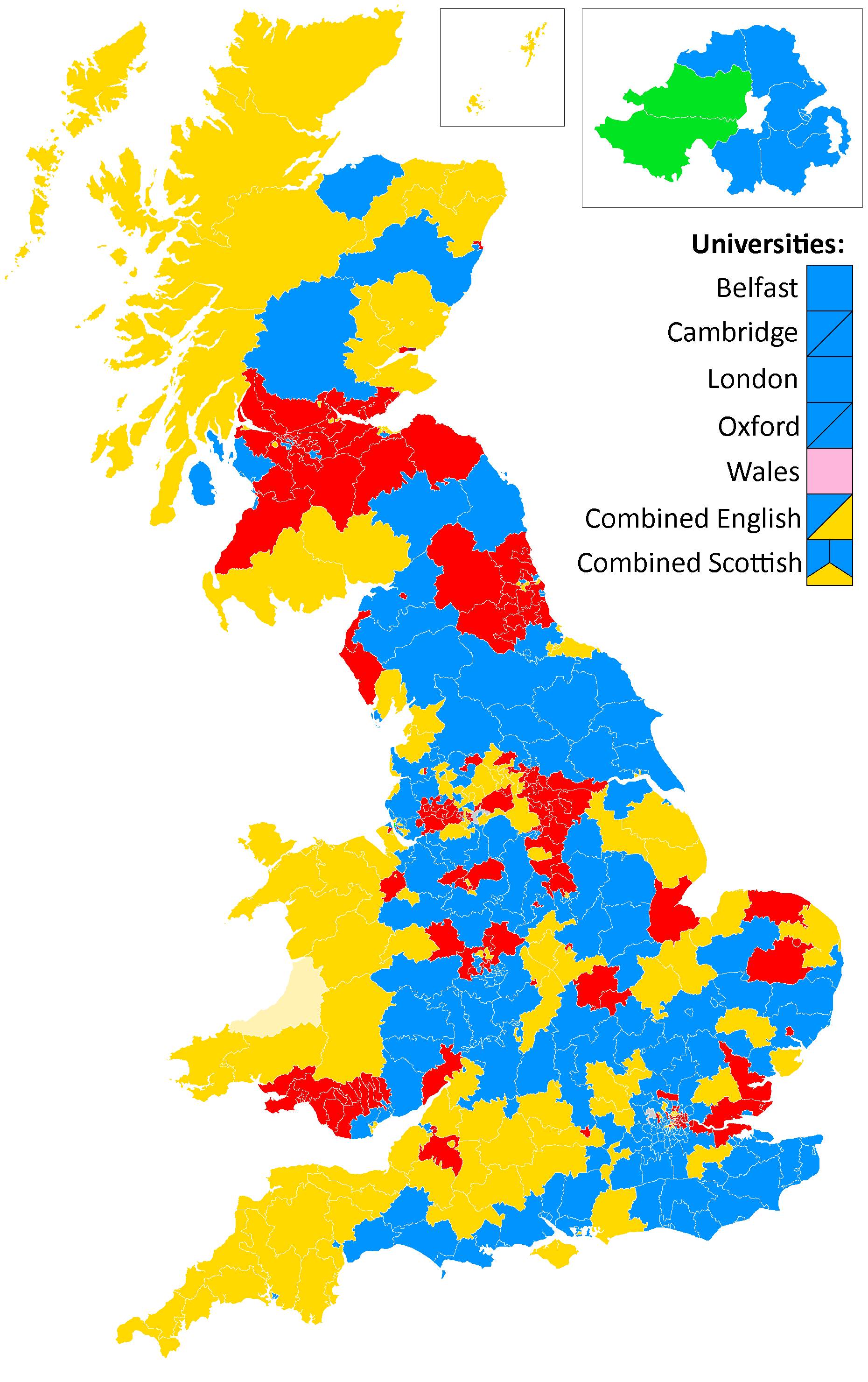 1923 election in the uk mapped